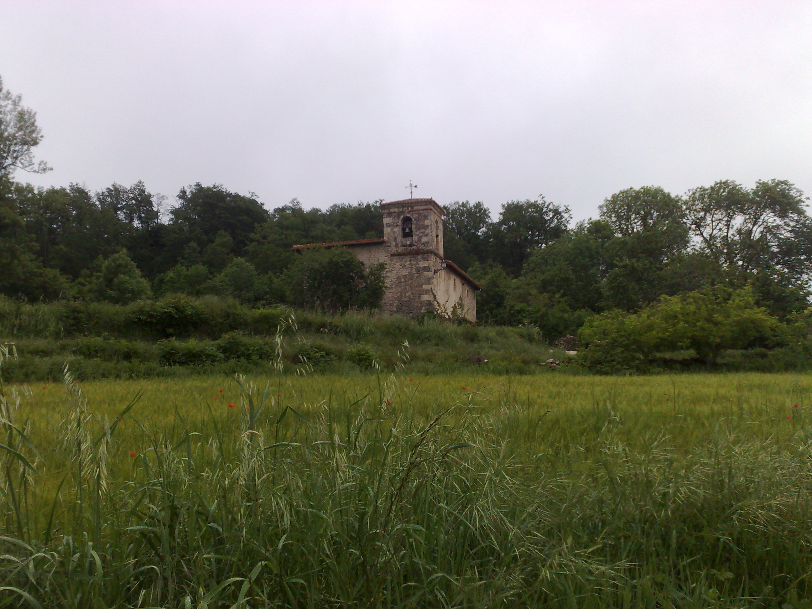 Saint Augustine church, Areatza, Arraia-Maeztu, Araba, Basque Country.